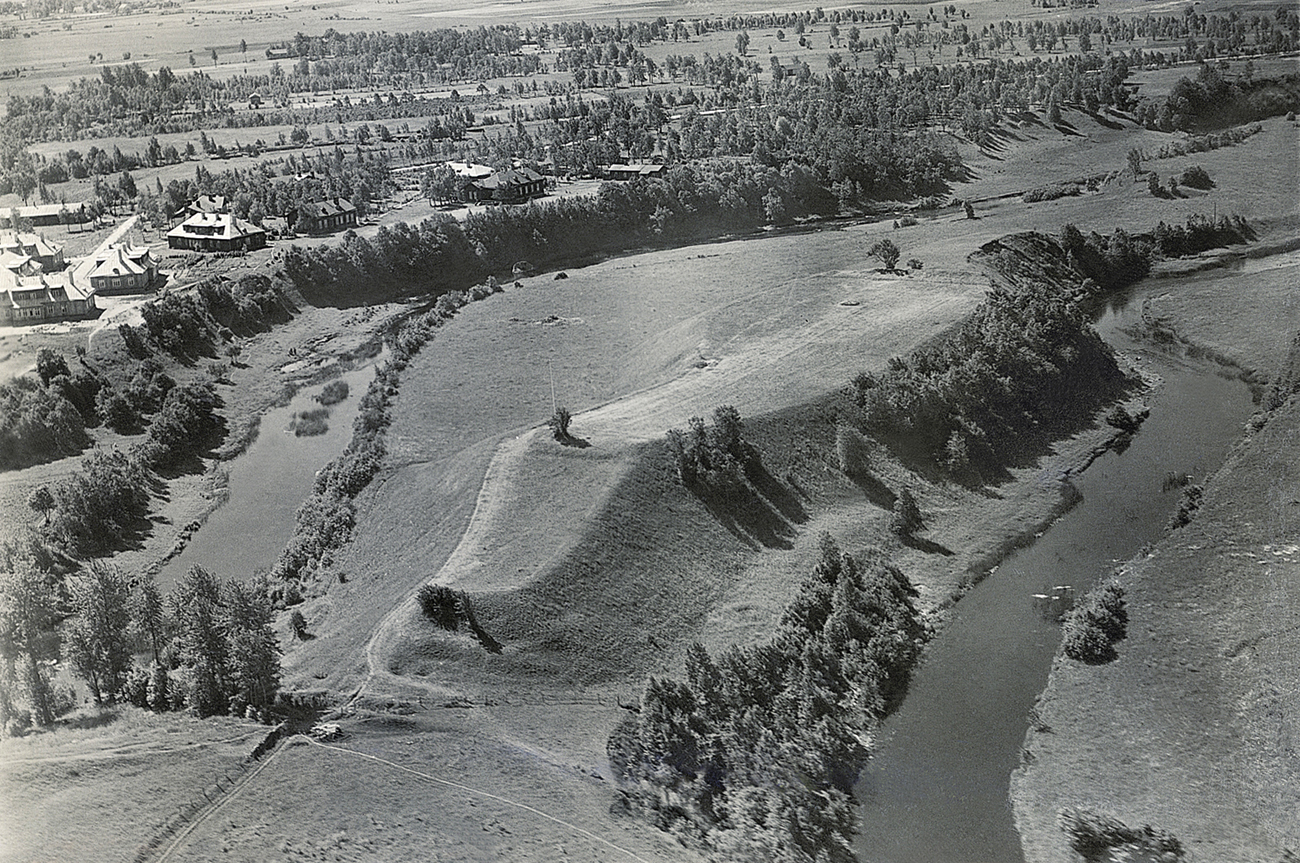 An aerial photo of the Iru fort in Northern Estonia, 1924. The photo is digitally enhanced.